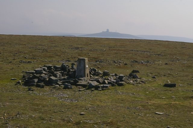 Cross Fell summit, looking to Great Dun Fell. Brightness and contrast have been increased from the original image.